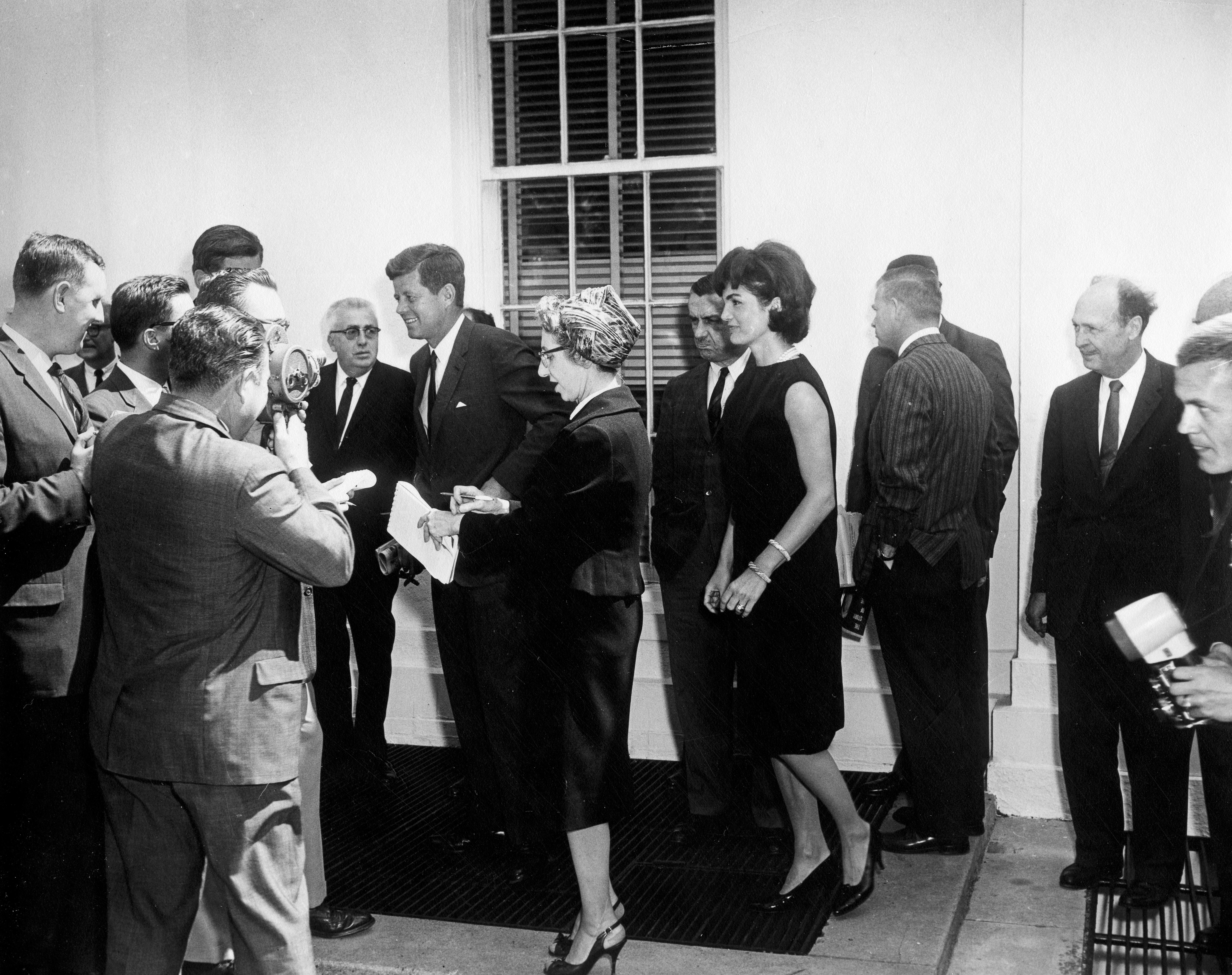 Original Caption: President John F. Kennedy and First Lady Jacqueline Kennedy Bid Farewell to Prince Rainier III and Princess Grace of Monaco We are looking for your help in identifying unknown people in our White House Photographs collection. If you have any information about this photograph, please post a comment, including any relevant sources, for the catalogers at the John F. Kennedy Presidential Library. Thank you! Local Identifier: JFKWHP-AR6607-C Created By: Department of the Interior. National Park Service (II). Region VI, National Capital Region. From: Abbie Rowe White House Photographs, 12/06/1960 - 03/11/1964 Contact: John F. Kennedy Library (LP-JFK), Columbia Point Boston, MA 02125-3398 Phone: 617-514-1600 Fax: 617-514-1652 Production Dates: 5/24/1961 Scope and Content Note: In this photograph President John F. Kennedy and First Lady Jacqueline Kennedy bid farewell to Prince Ranier III and Princess Grace of Monaco (actress Grace Kelly) following a luncheon in their honor. United Press International (UPI) reporter, Merriman "Smitty" Smith, stands behind and left of Mrs. Kennedy; UPI photographer, James K. W. Atherton, is visible on far right edge of image. All others are unidentified. West Wing Entrance, White House, Washington, D.C. Persistent URL: JFK Library URL: Access Restrictions: Unrestricted Use Restrictions: Unrestricted